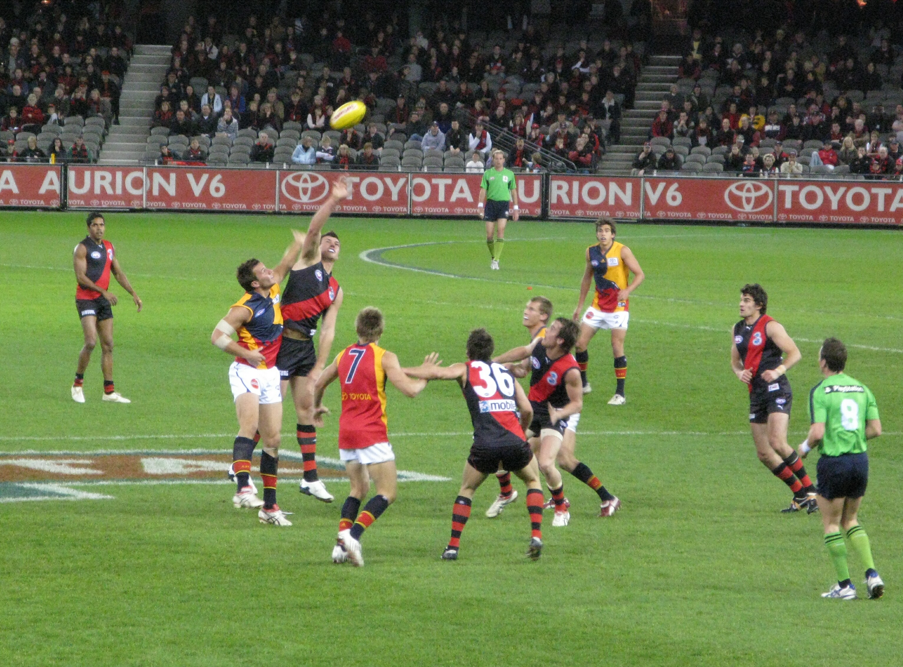 An AFL match between Essedon and Adelaide Football Clubs.